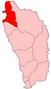 Map of Dominica showing Saint John parish.